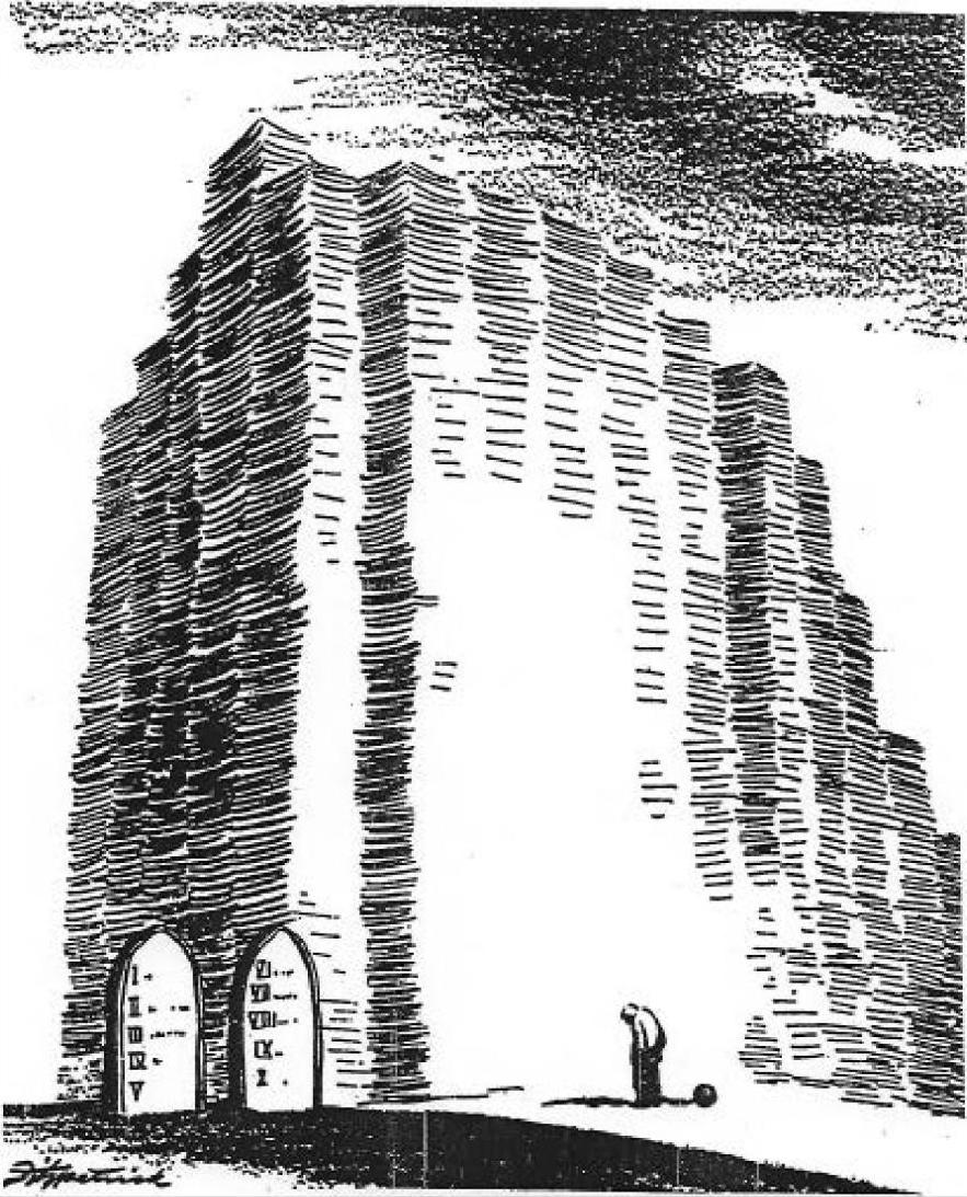 An editorial cartoon contrasting the proliferation of modern laws to the brevity of the Ten Commandments. Winner of the 1926 Pulitzer Prize for Editorial Cartooning.